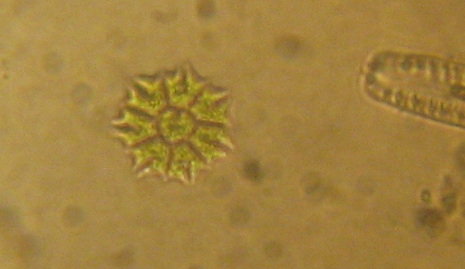 Pediastrum coenobium. Eutrophic lake phytoplankton. Northern Poland.